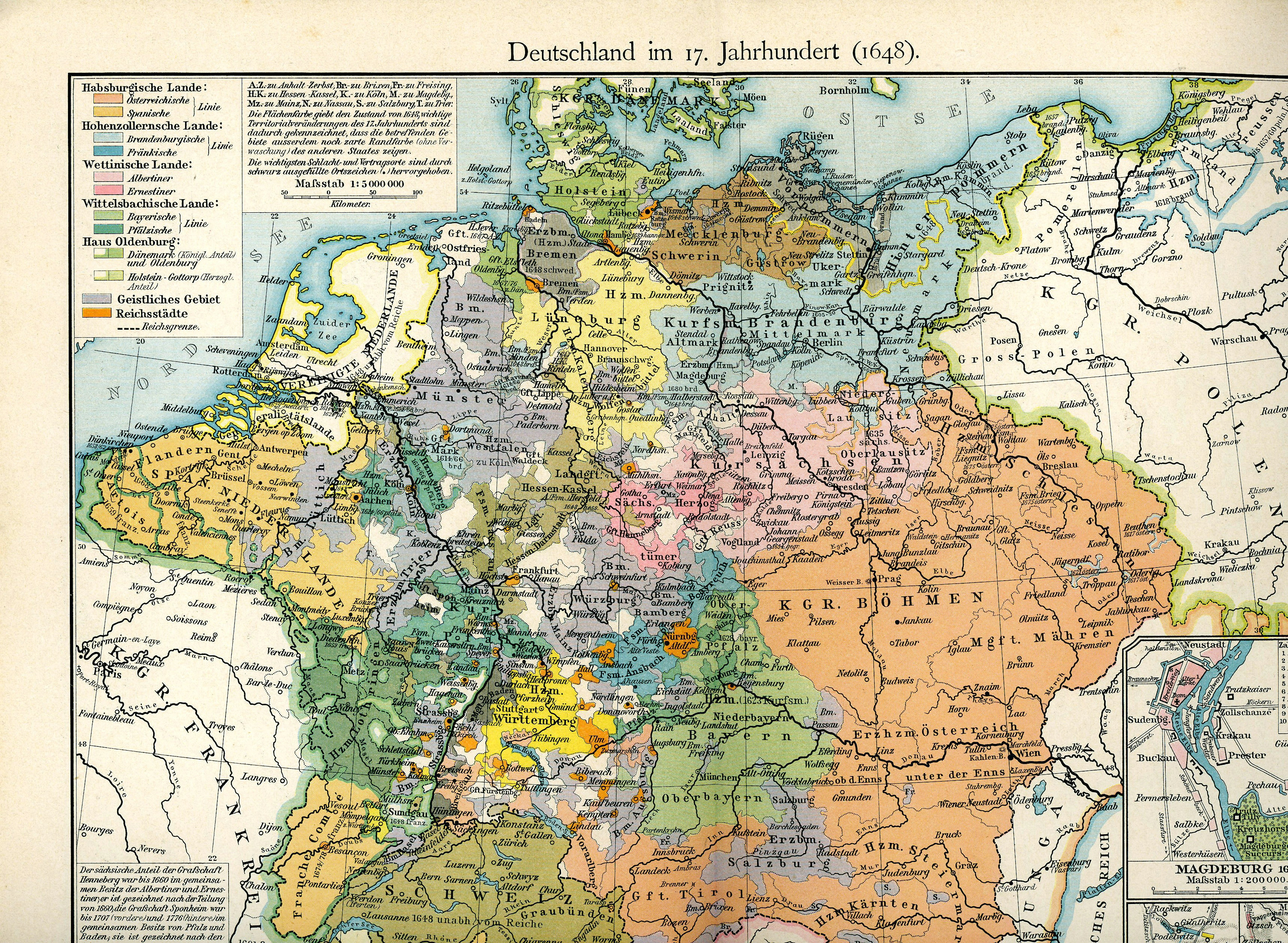 Map of Germany (1648)